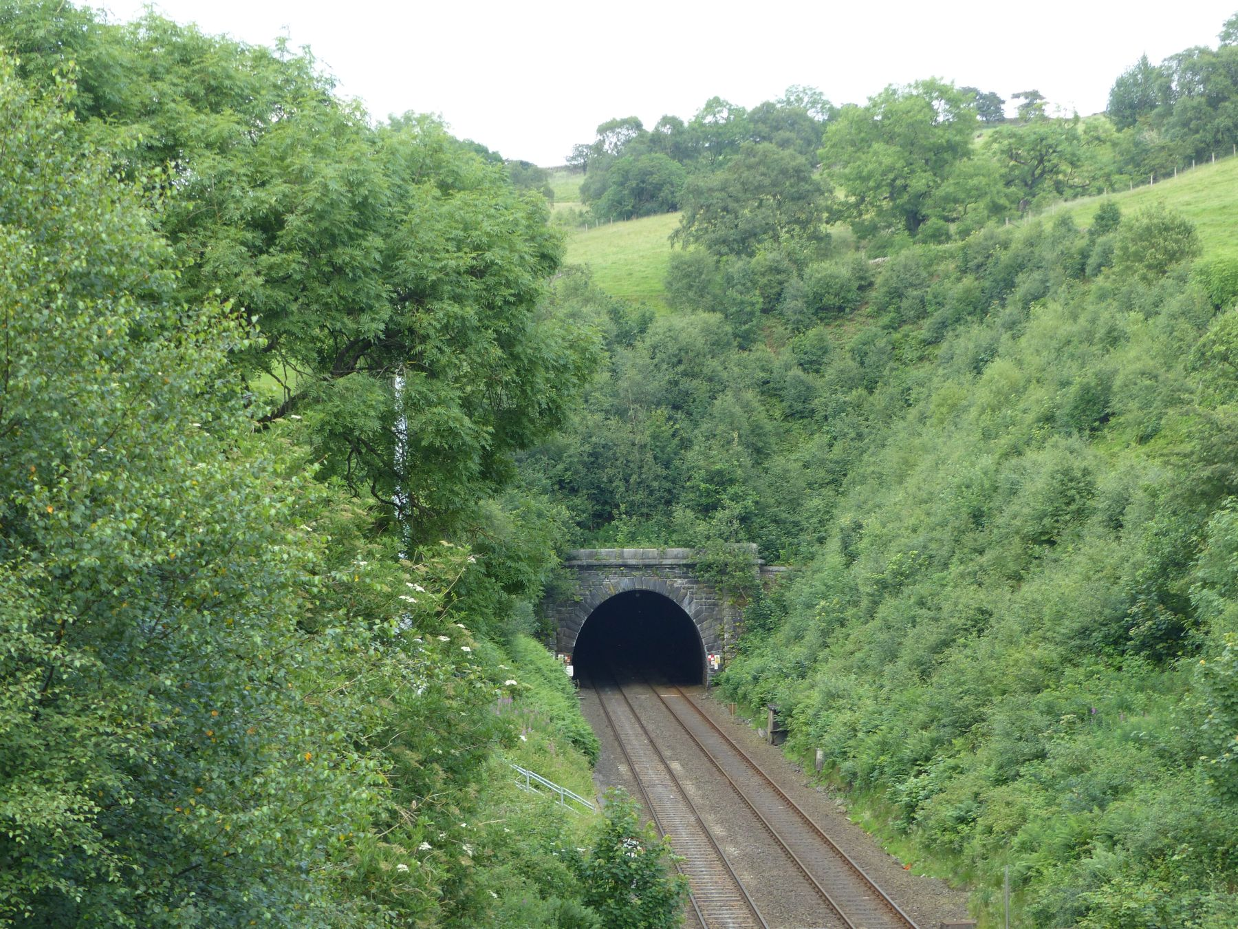 Taken from a railway bridge on a public footpath between Malcoff and Shireoaks.